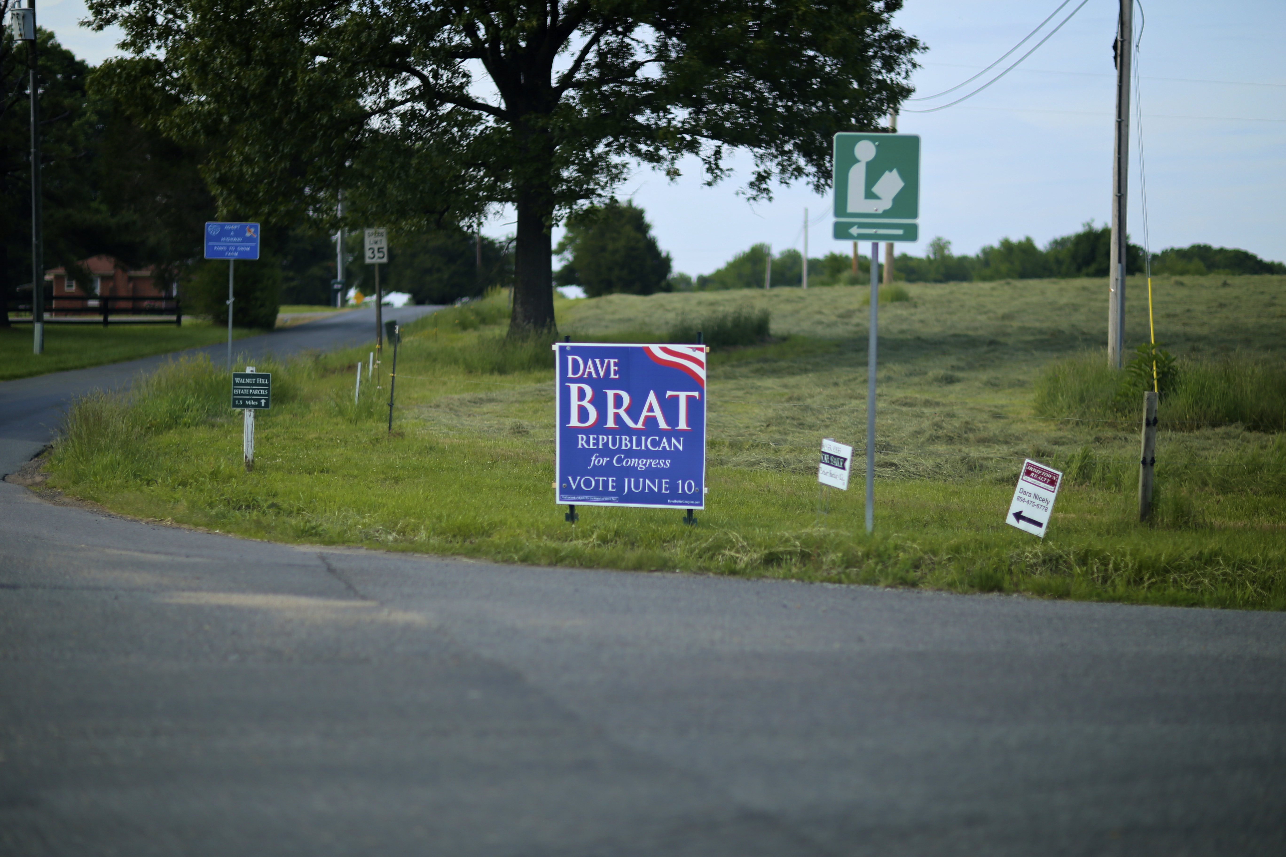 A sign in Rockville, Virginia near the intersection of State Route 271 and Walnut Hill Drive, supporting Dave Brat for Congress in the June 10, 2014 Republican primary for Virginia's 7th congressional district. Brat won the primary, beating Majority Leader Eric Cantor. The sign is along side a road near a sign pointing the direction to a library.